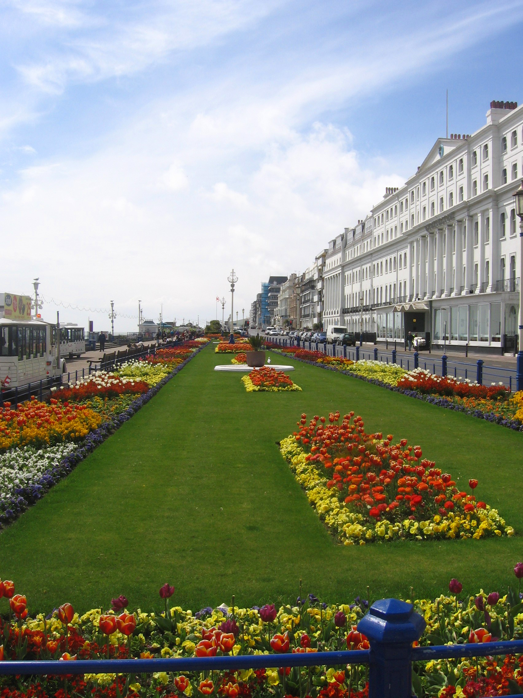 Carpet Gardens, Eastbourne